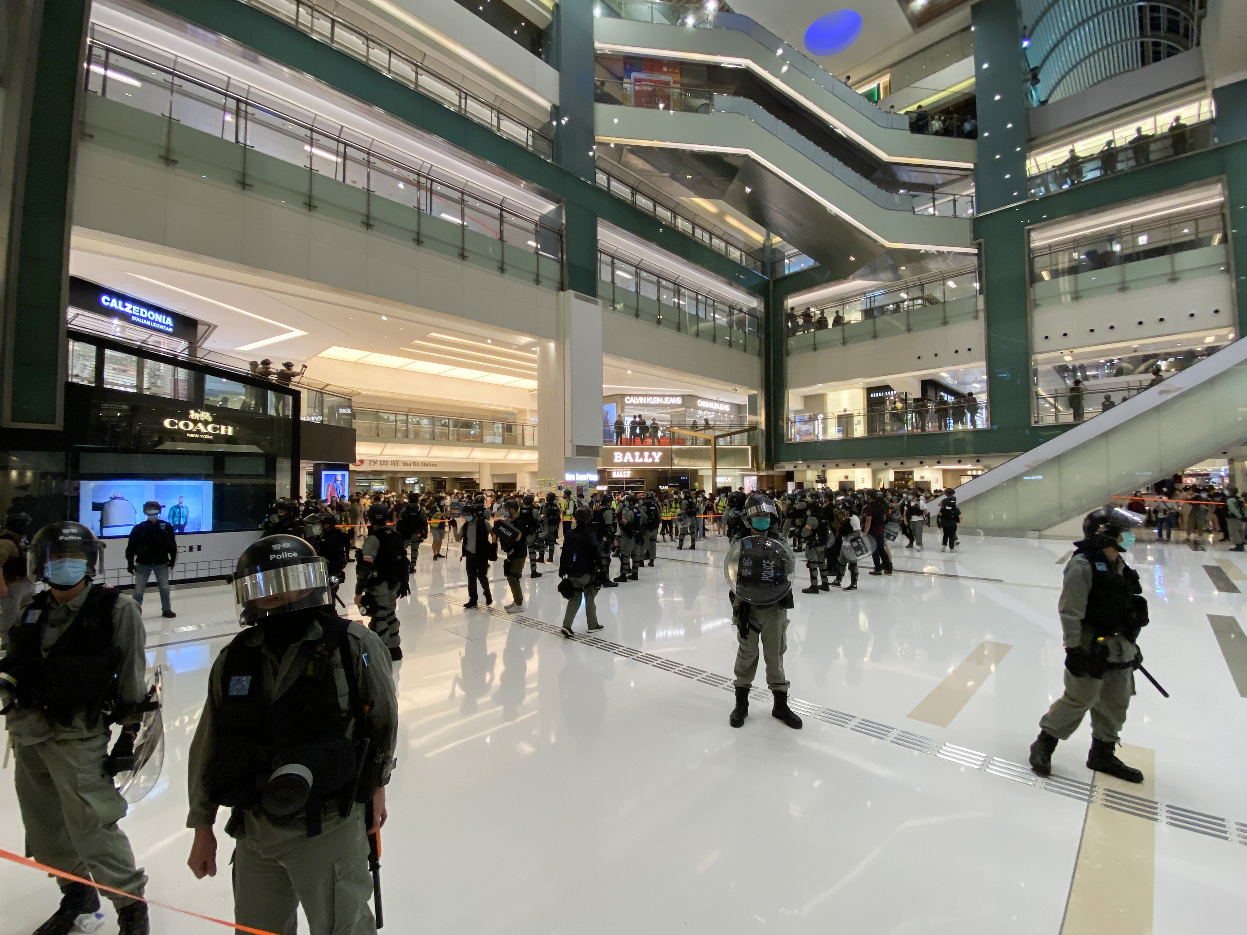 Riot police in Level 3 Atrium overview